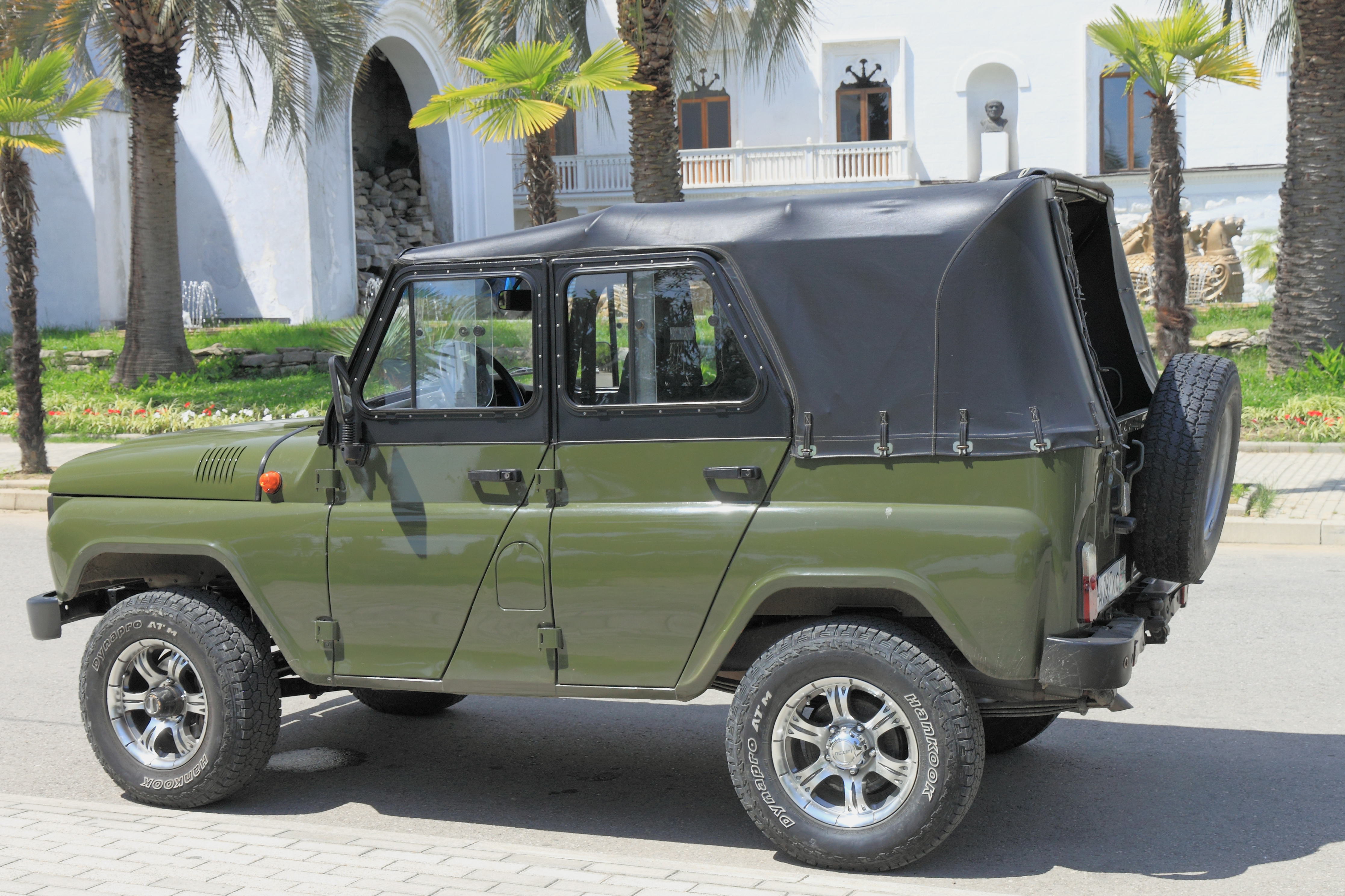 UAZ-469. Sukhumi, Abkhazia.